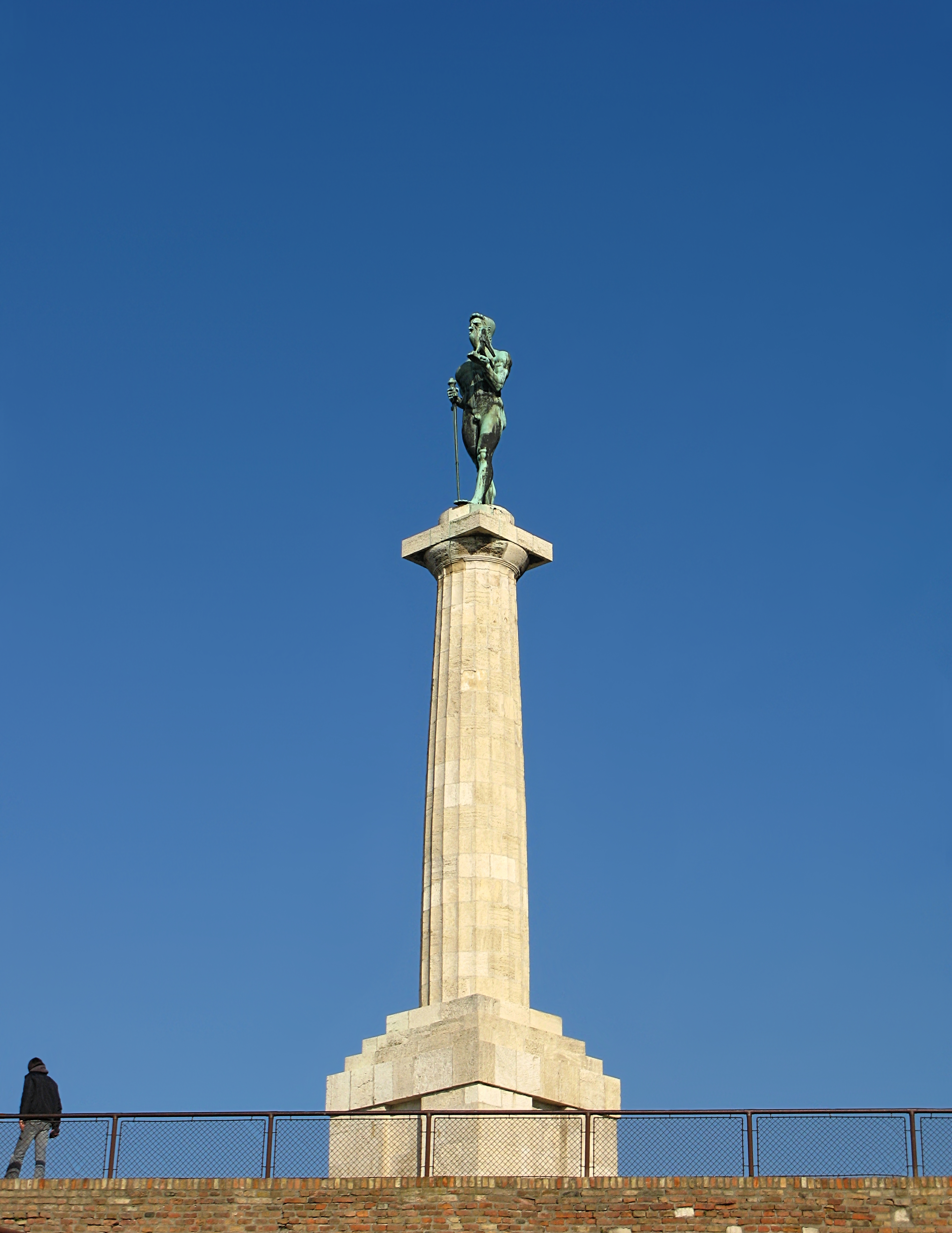 Pobednik monument (The Victor), Kalemegdan fortress in Belgrade, Serbia.